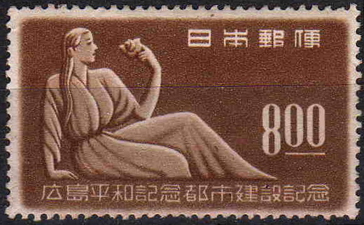 Hiroshima Peace city.